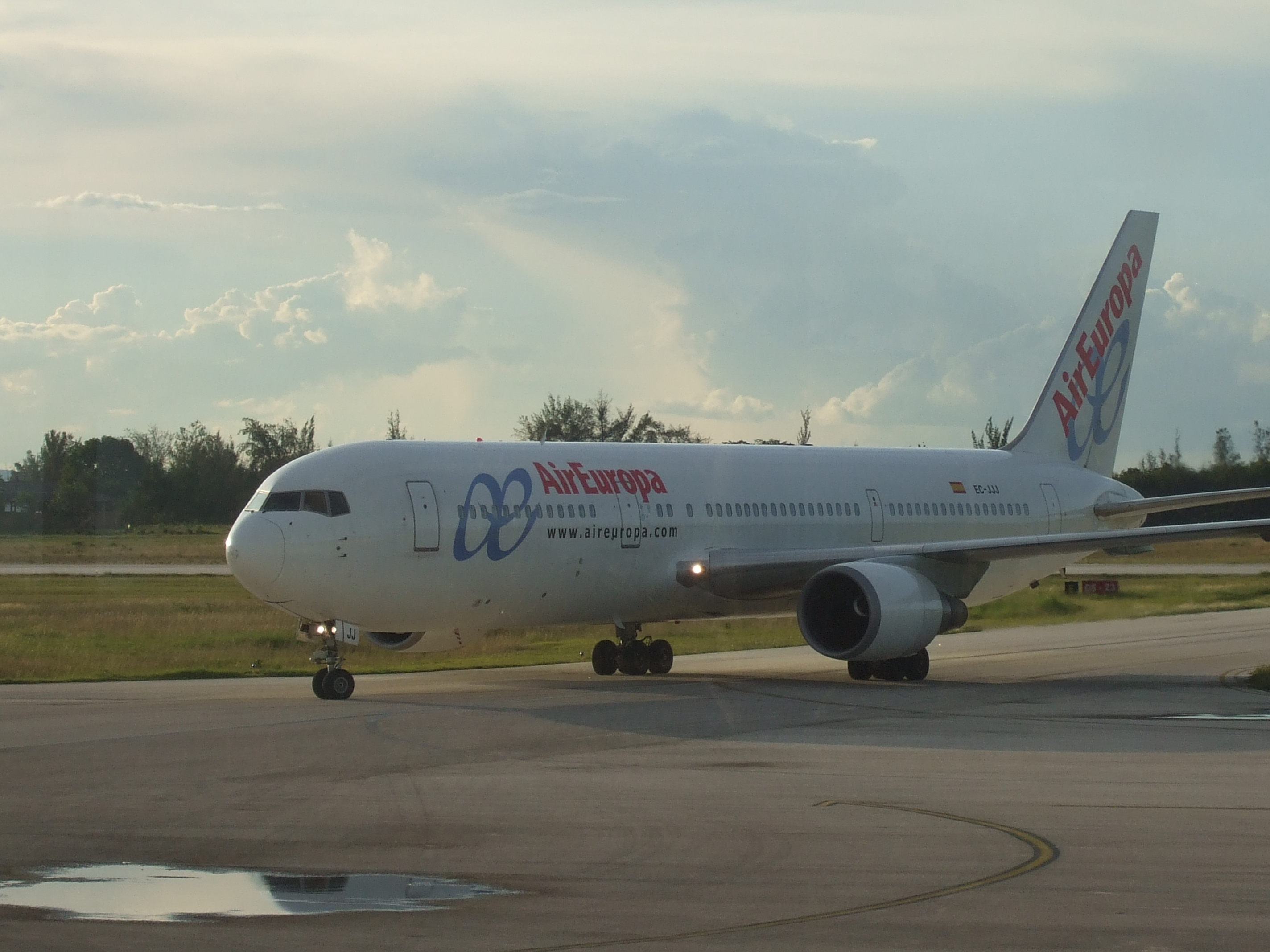 Air Europa Boeing 767-300ER (EC-JJJ)